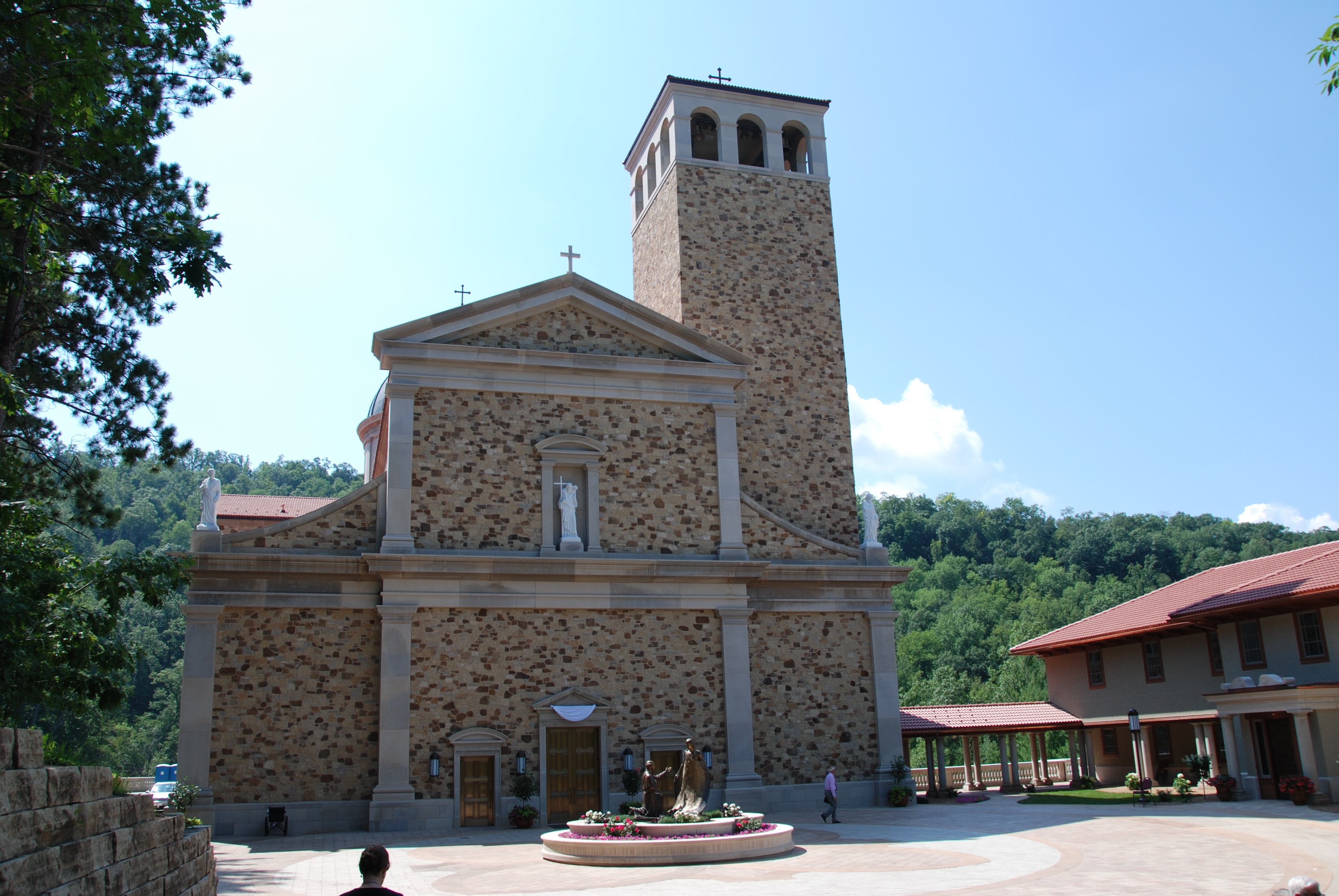 The front of the Shrine of Our Lady of Guadalupe church south of LaCrosse, Wisconsin.